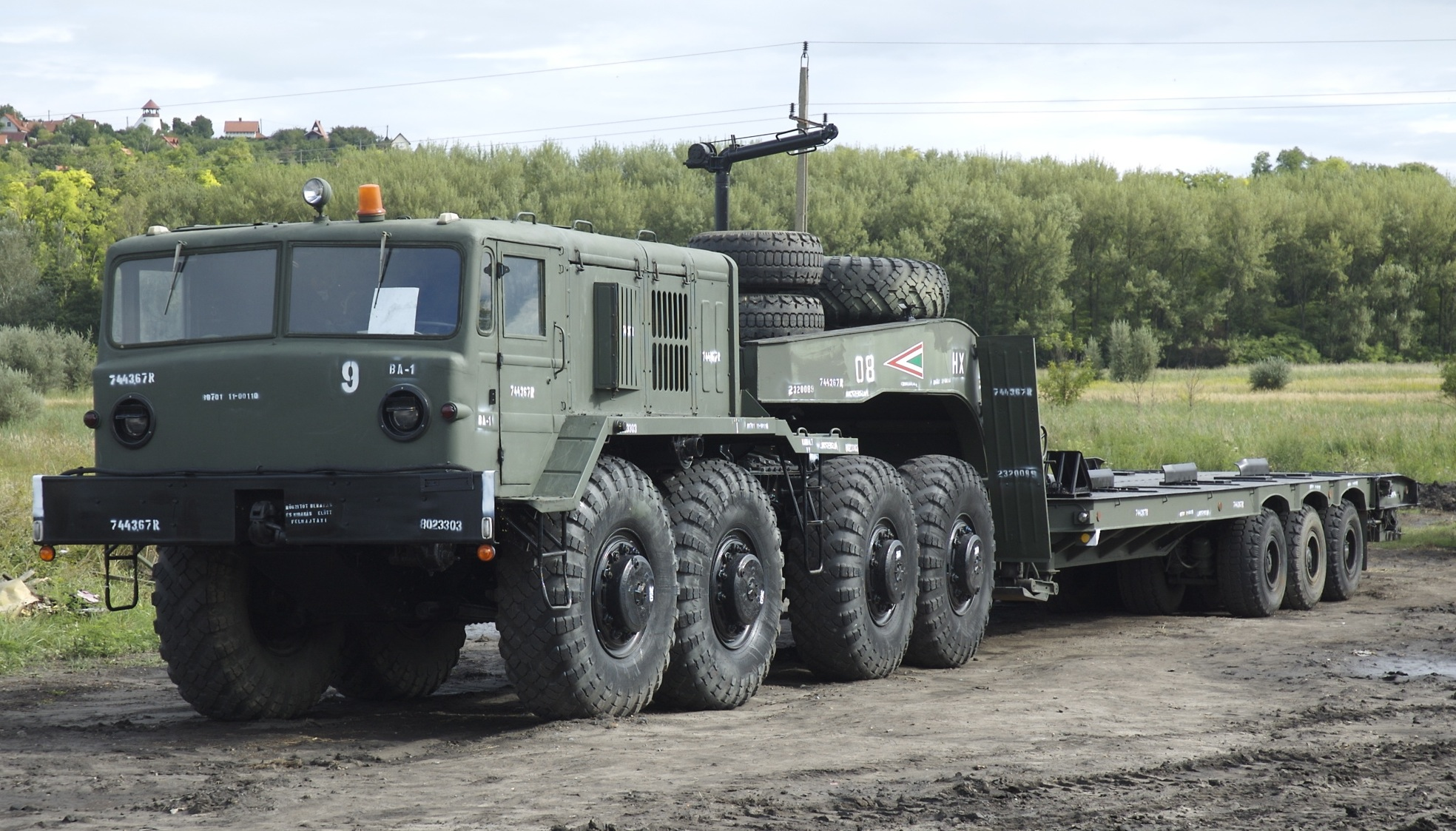 Soviet MAZ-537G tank trailer (with Hungarian marking)